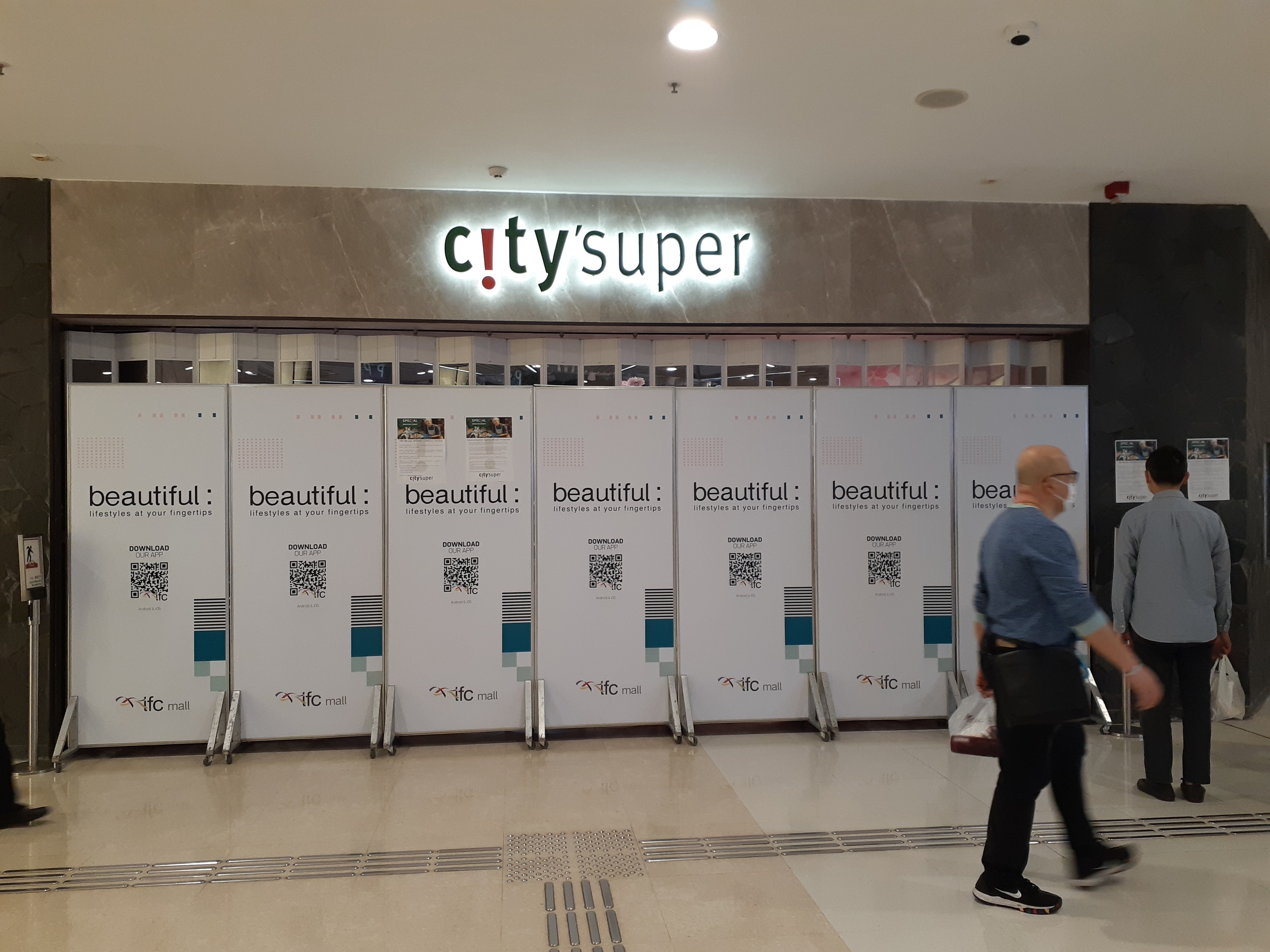 HK 中環 Central IFC mall Citysuper Supermarket out of service for days notice in March 2020